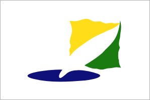 Emblem of Gangwon